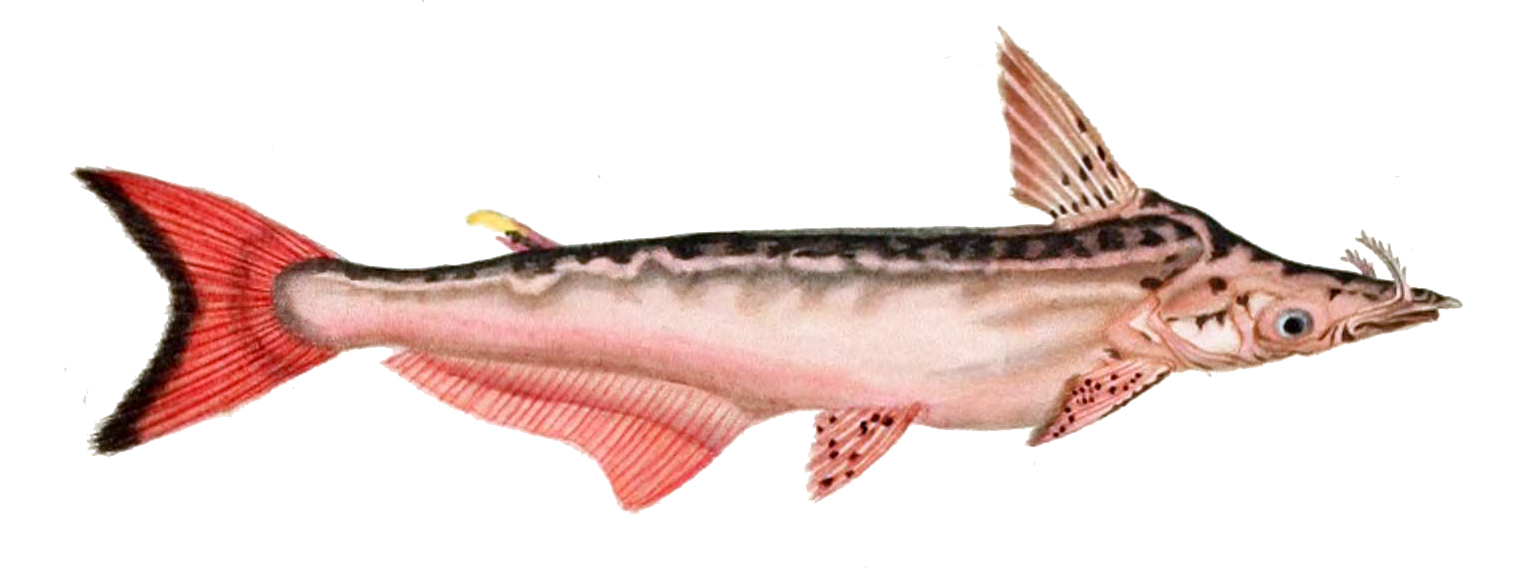 « Ageniosus militaris » = Ageneiosus militaris